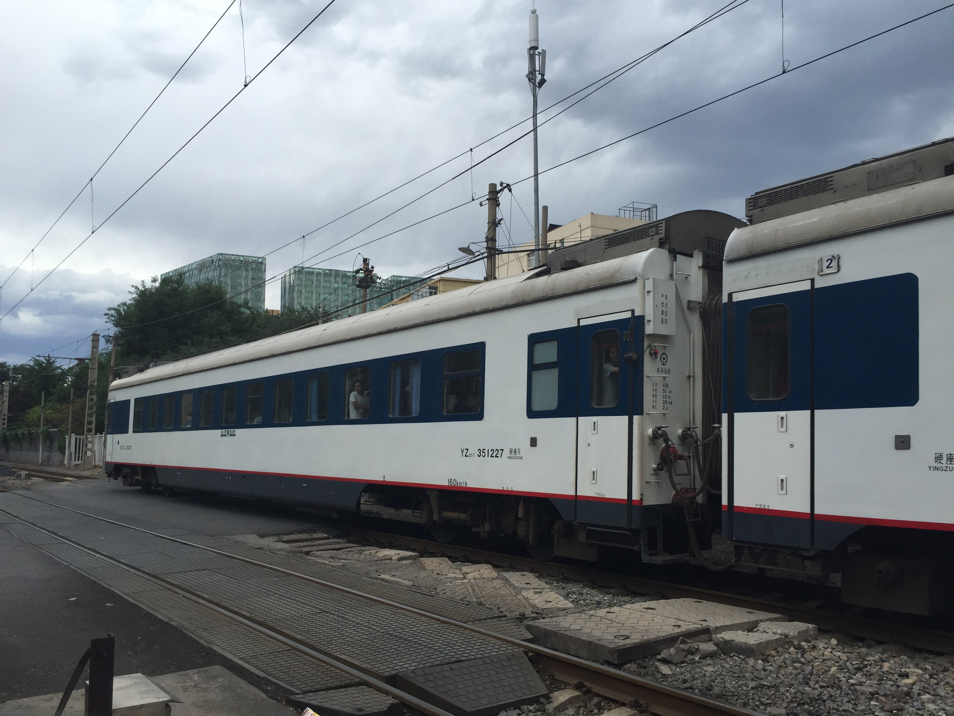 Z60, the Hokchew Express.